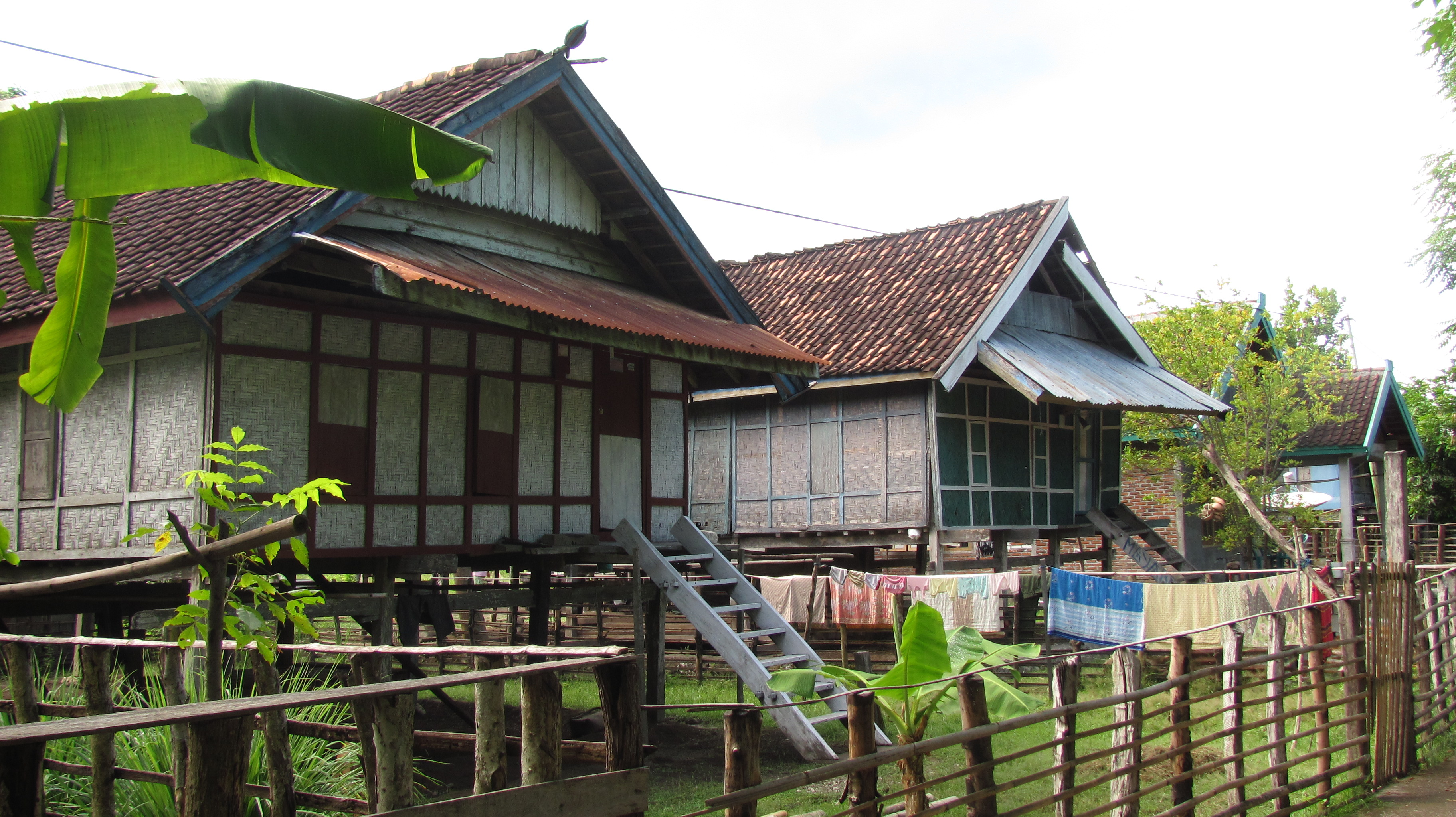 Traditional architecture, village of Labuan Haji, Moyo Island, Nusa Tenggara Barat, Indonesia